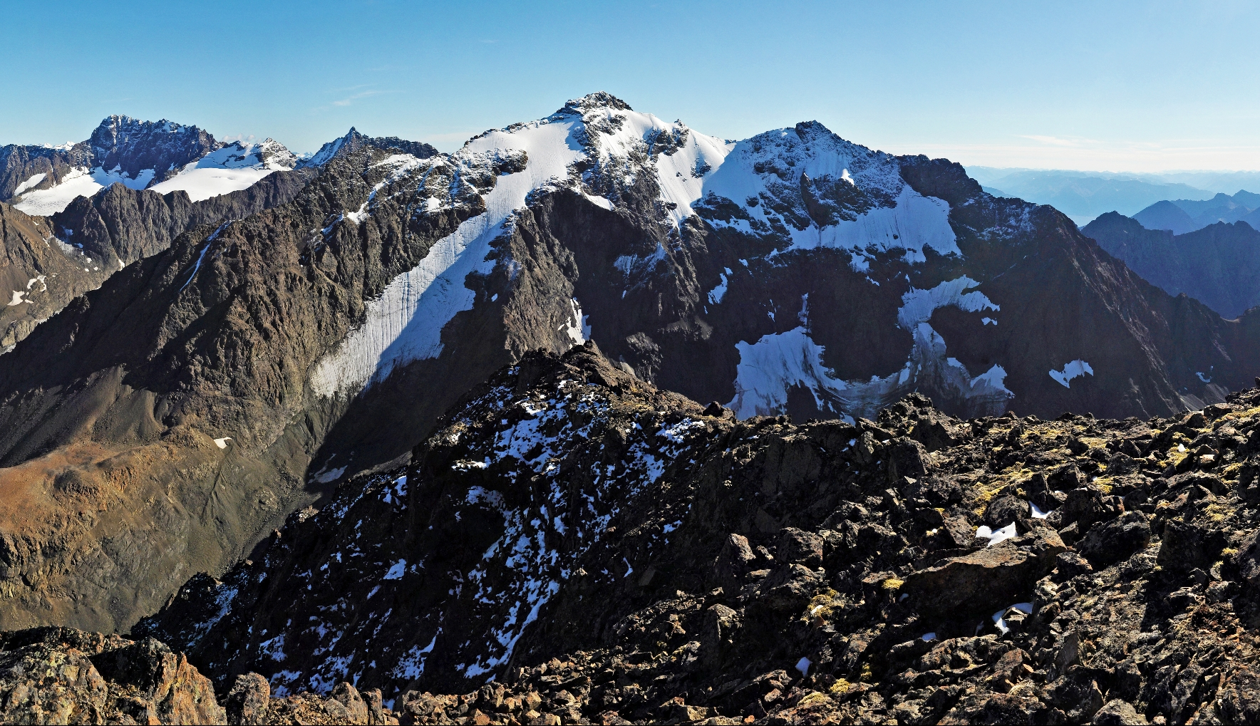 Calliope Mountain seen from Cantata Peak, Chugach State Park, Alaska